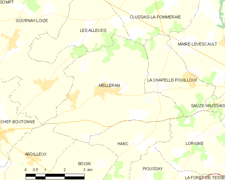 Map of French municipality Melleran